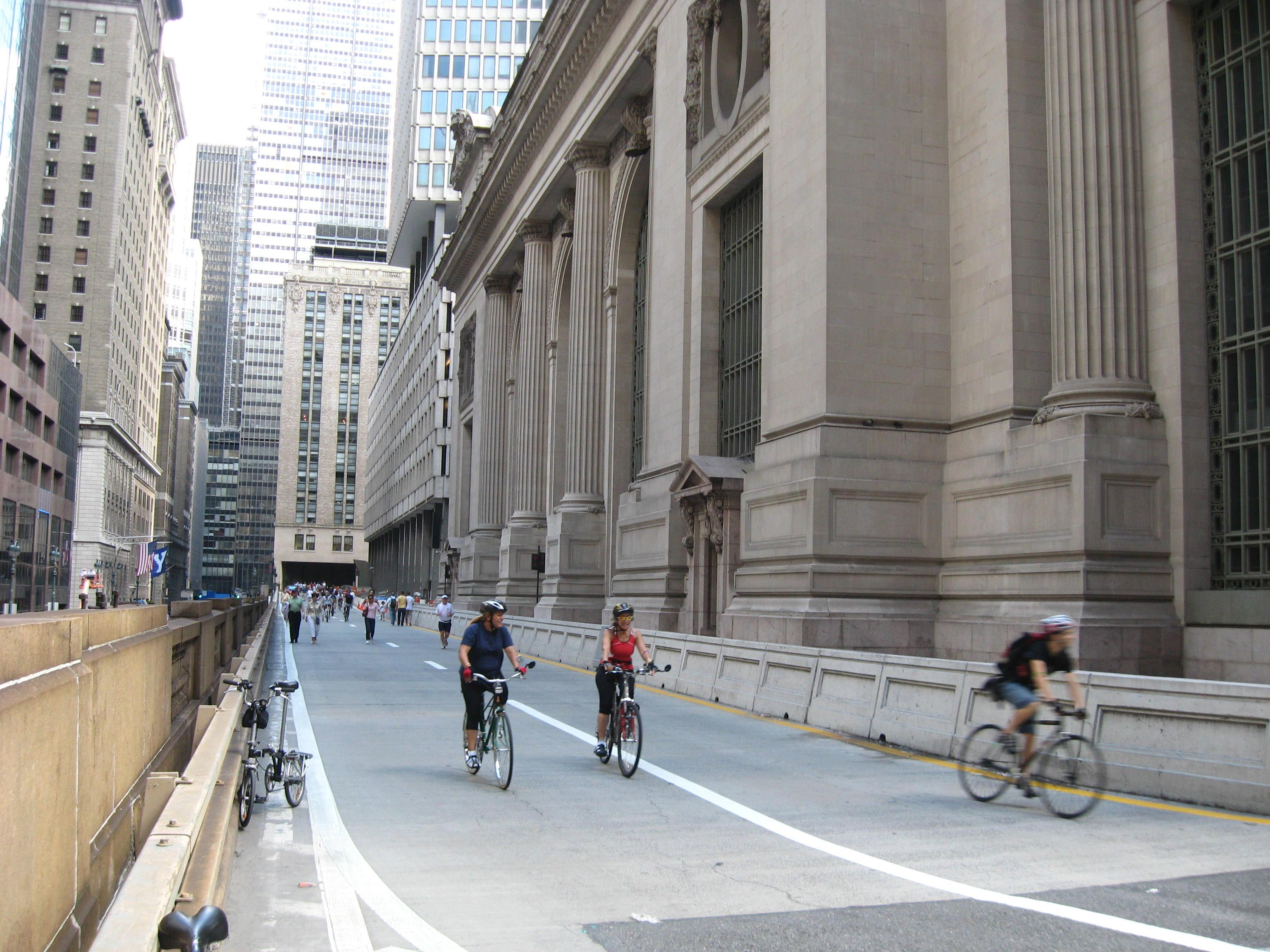 Lookng north as Park Avenue (Manhattan) road viaduct winds around west side of Grand Central on a sunny late morning.